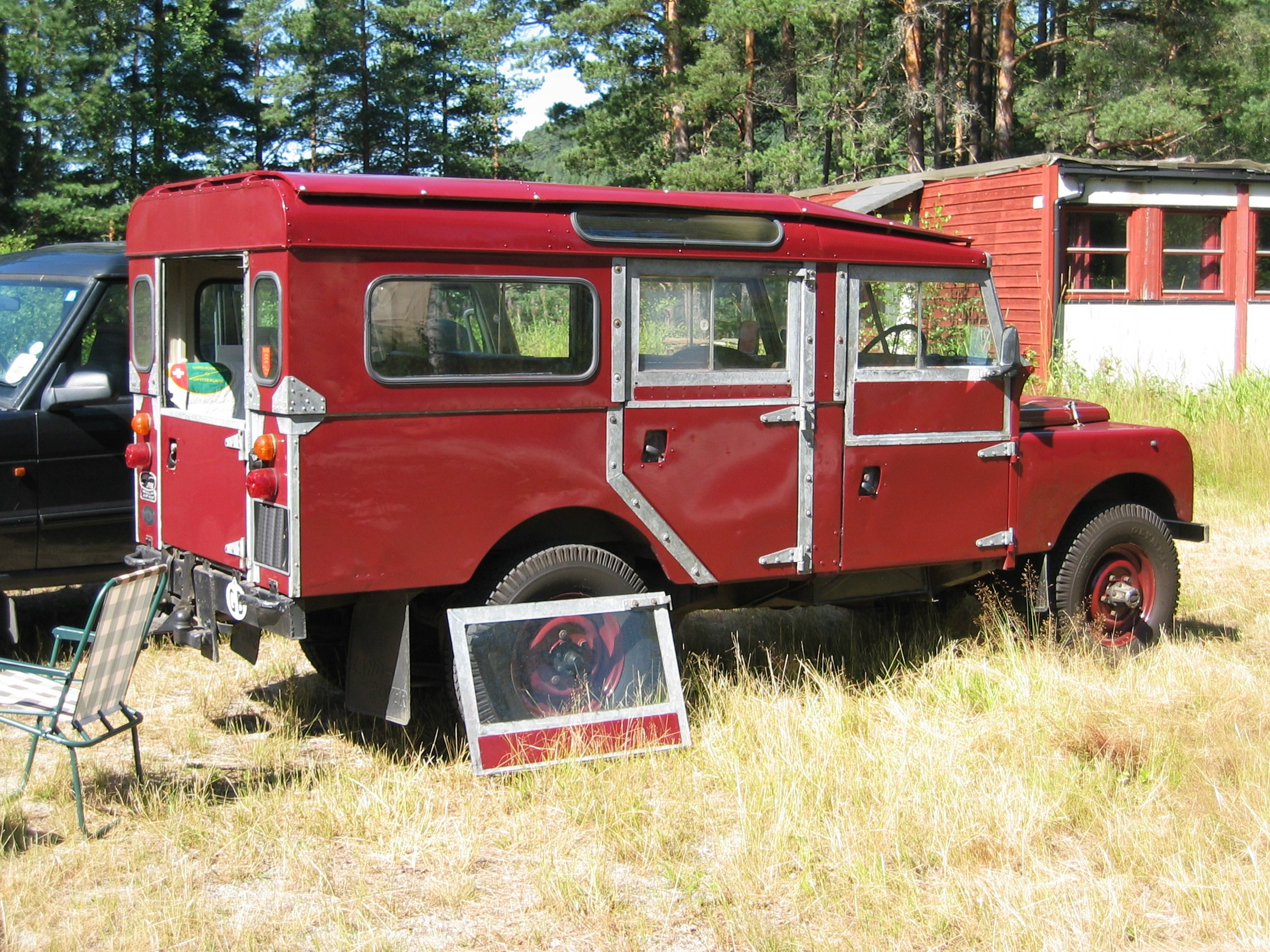 Land Rover Series I 107" Station Wagon in Evje, Norway on the Norwegian Land Rover Club's 30th anniversary meet on 2005-08-02. The plaque in the vehicle window states that the vehicle was sold from the LR factory to the British Transport Comission, British Railways' purchasing agency. It was sprayed red and spent much of it's working life on the North Wales Railway. Camera: Canon Powershot S45